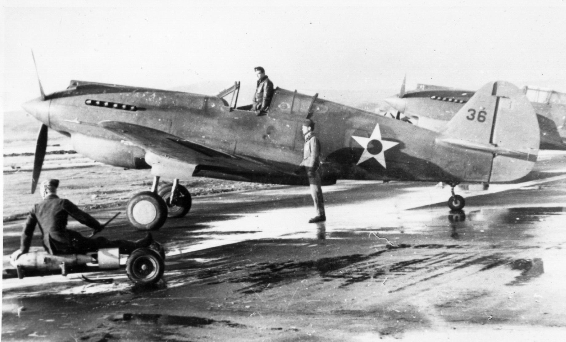 P-40C Warhawk, 33d Pursuit Squadron, Kaldadarnes Iceland, 1941 (Flickr - No Restrictions)